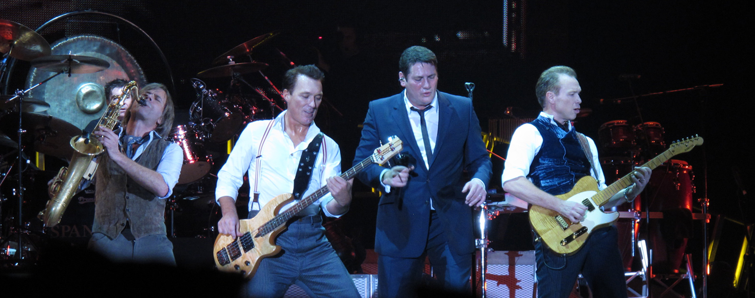 Spandau Ballet began a world tour in October 2009, starting with eight dates across Ireland and the UK, the first of which was in Dublin on 13 October 2009. The tickets for the UK and Ireland shows went on pre-sale on the official Spandau Ballet website on 25 March 2009. These then went on general release on 27 March 2009. For the general release tickets, the London O2 arena tickets sold out within 20 minutes and an extra two dates were added there because of demand. The band also announced an extra date in Birmingham and added Liverpool to the tour.